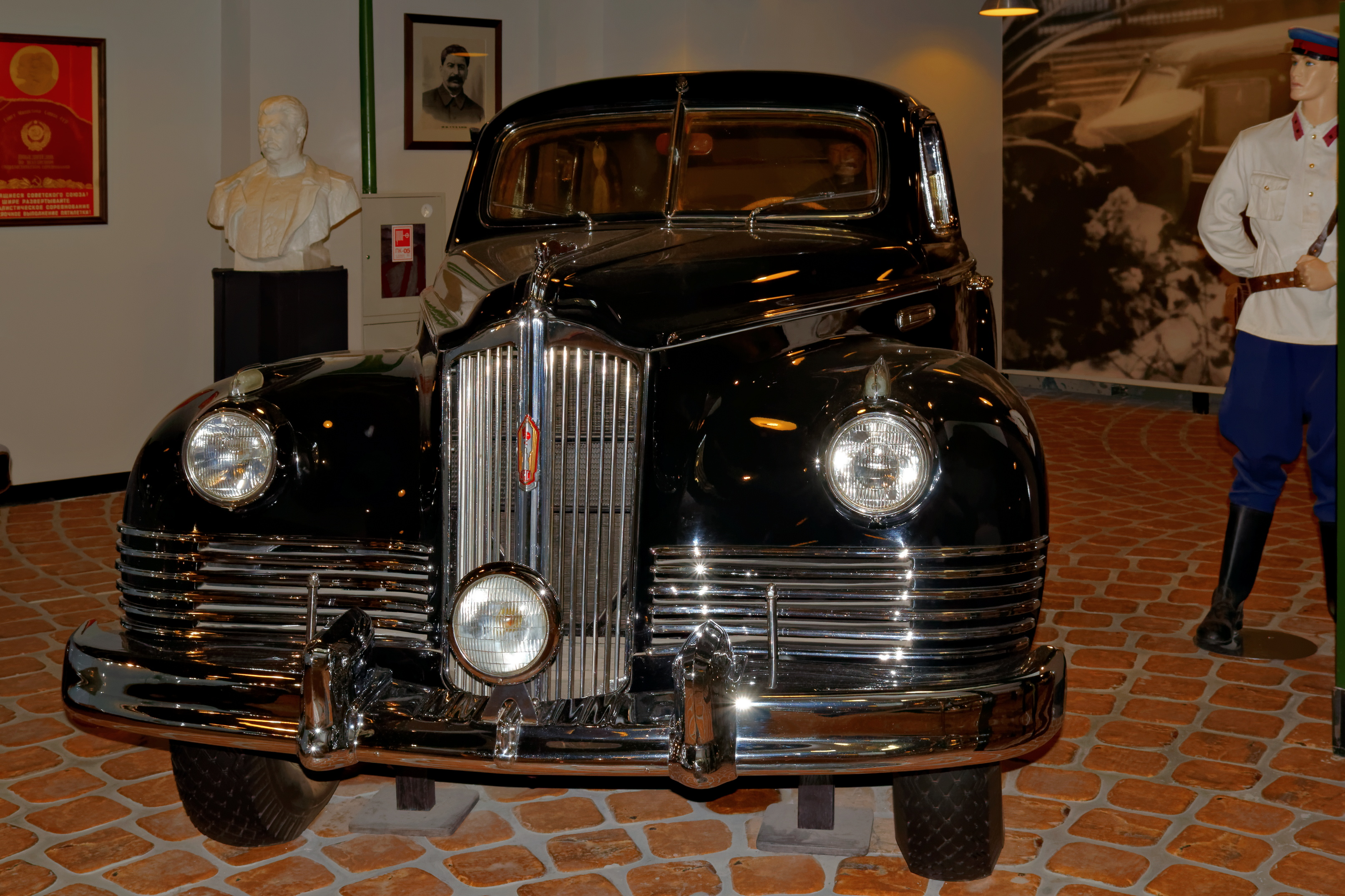 Arkhangelskoye. Vadim Zadorozhny’s Vehicle Museum. ZIS-115